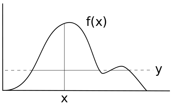 A probability distribution with a horizontal and vertical slice indentified